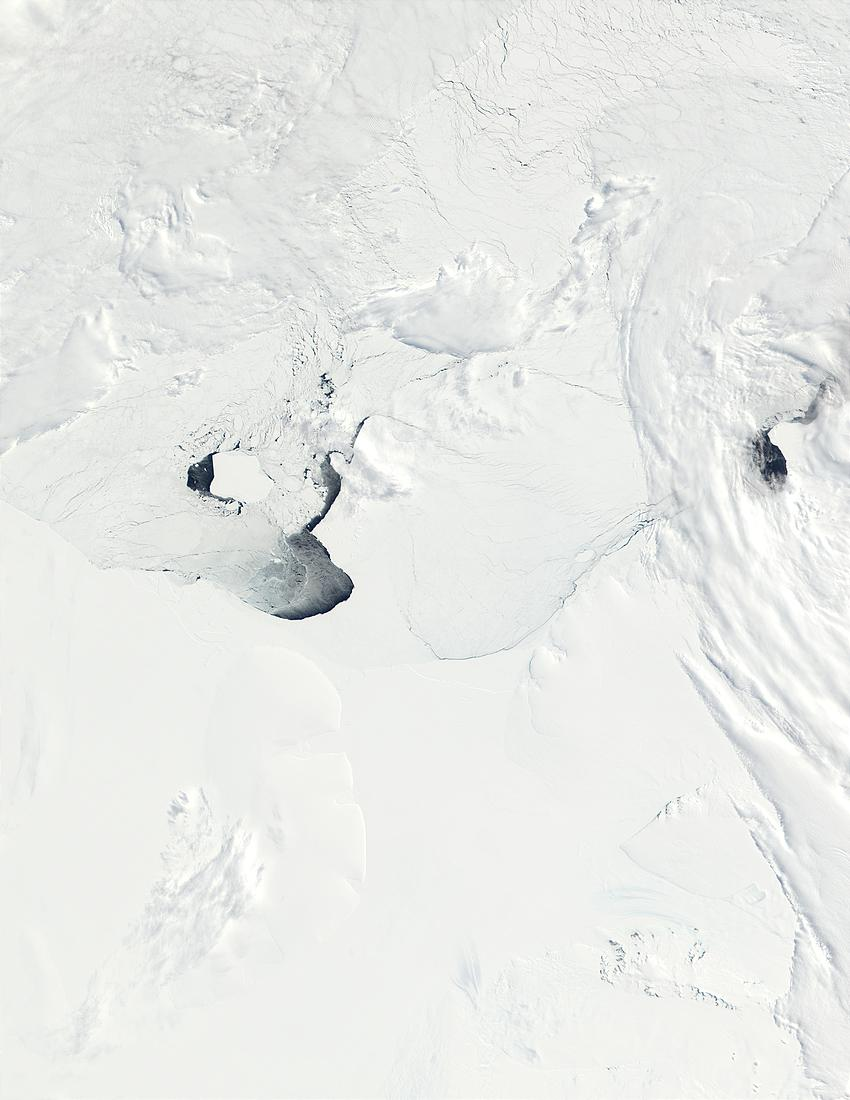 This true-color image from the MODIS on NASA’s Terra satellite shows a portion of the West Antarctic coastline from about 60 degrees West (left) to about 20 degrees West (right). The image span (left to right) The Ronne Ice Shelf and Filchner Ice Shelf (the two are separated by Berkner Island, whose outline is barely visible just left of the center of the image), and Coats Land. At bottom right, a few rocky peaks are visible through the snow, and are known as the Shackleton Range.